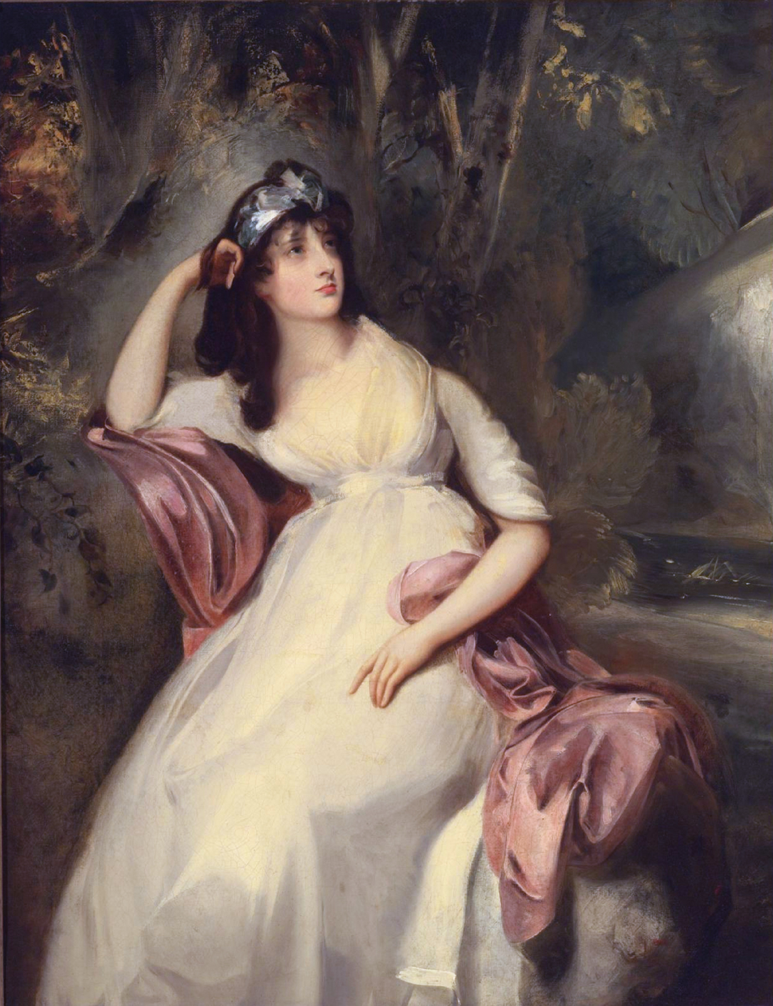 Sally Siddons (1775-1803) 143.4 by 111.8 cm. oil on canvas